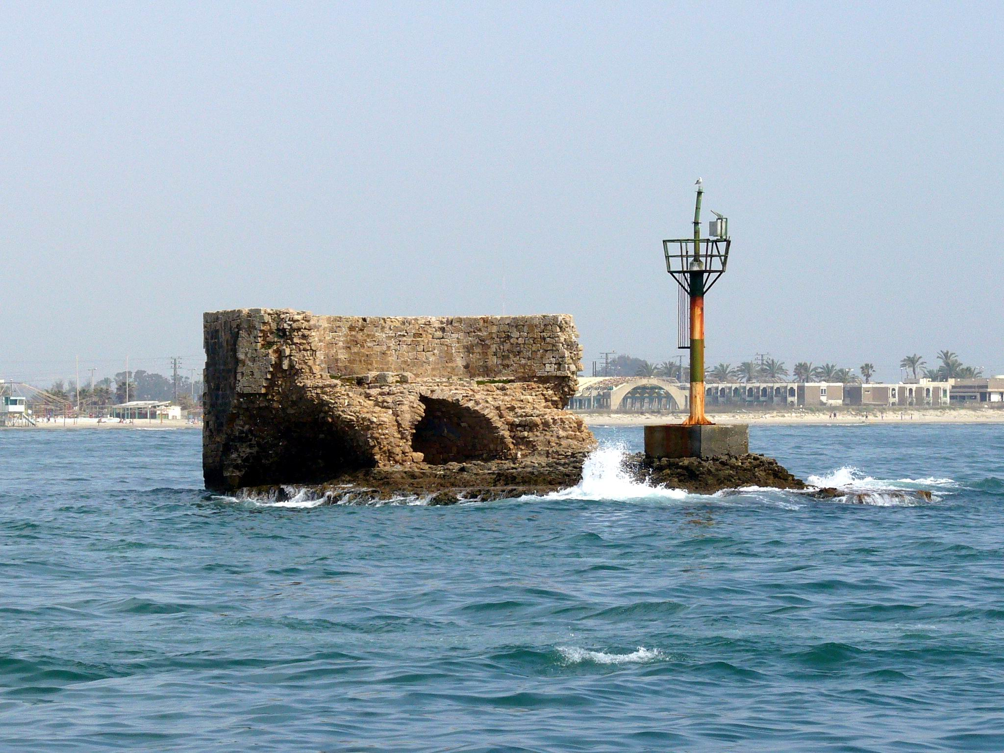 Island of the flies in Acre, Israel